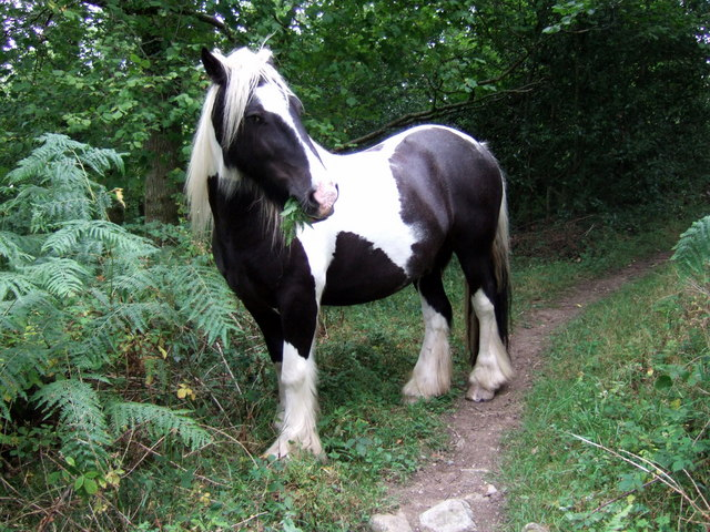 A horse eating bracken Handsome horse in Cwm Clydach. Bracken is said to be toxic for grazing animals and usually avoided unless no other food is available but that does not appear to be the case here.